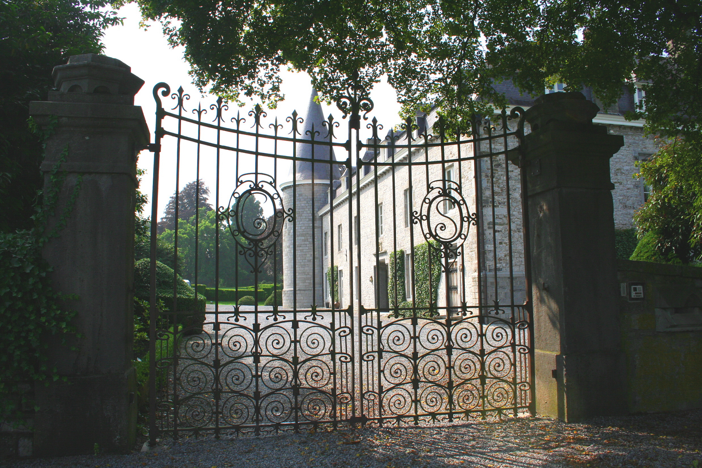 Sohier, the castle (XVII/XIXth centuries).